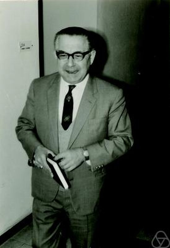 Wilhelm Specht, Erlangen 1967